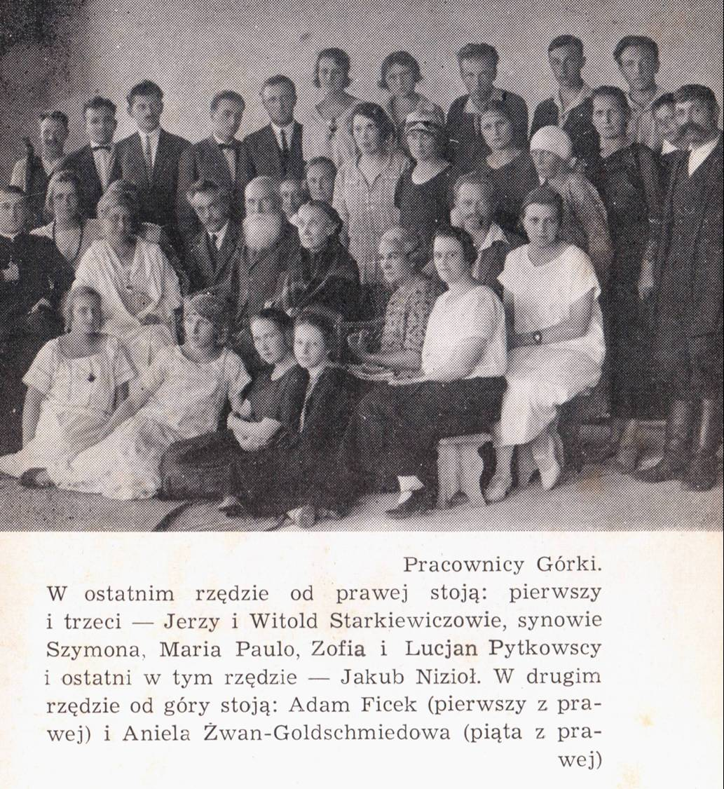 People of "Górka", Busko-Zdrój, ca 1920